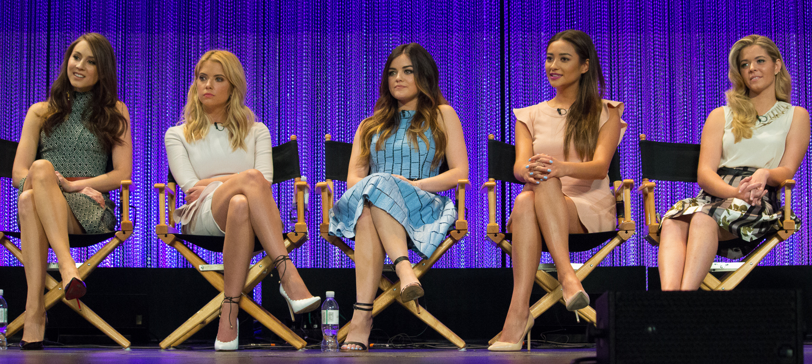 The core cast of "Pretty Little Liars" at The Paley Center For Media's PaleyFest 2014 Honoring "Pretty Little Liars". From left: Troian Bellisario, Ashley Benson, Lucy Hale, Shay Mitchell, and Sasha Pieterse.